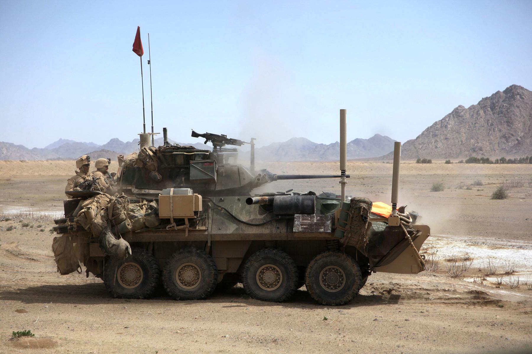 A light armored vehicle crew with C Company, 3rd Light Armored Reconnaissance Battalion, engages insurgents with their 25mm cannon in the Bahram Chah valley, Helmand province, Afghanistan, during Operation Rawhide II, March 14. The battalion encountered insurgent resistance throughout the four-day raid on the key insurgent trafficking point on the Pakistan border, usually in the form of mortar and rocket attacks.